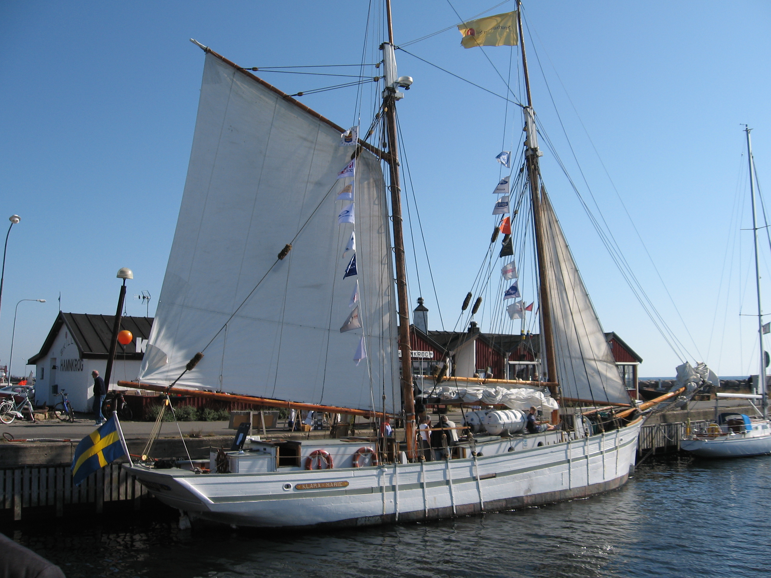 Schooner Klara Marie in Skillinge